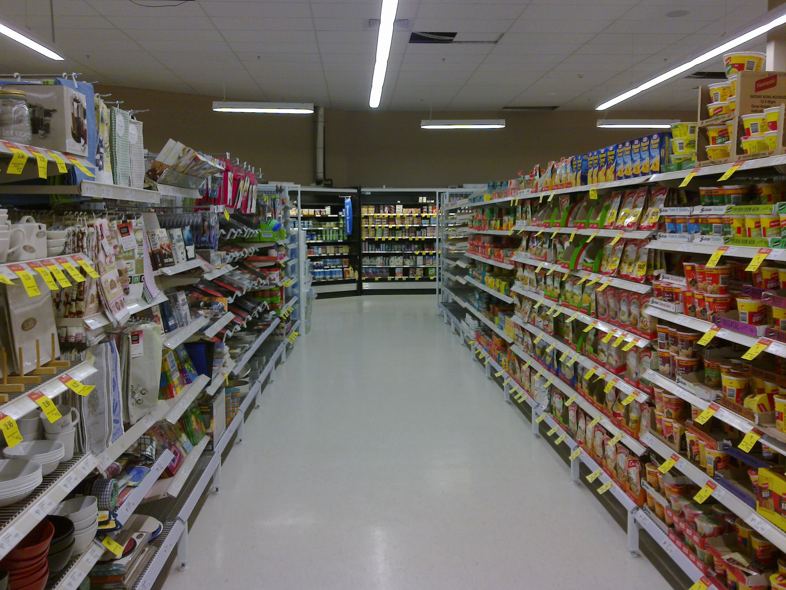 Shopping aisle of the new Coles South City extension.